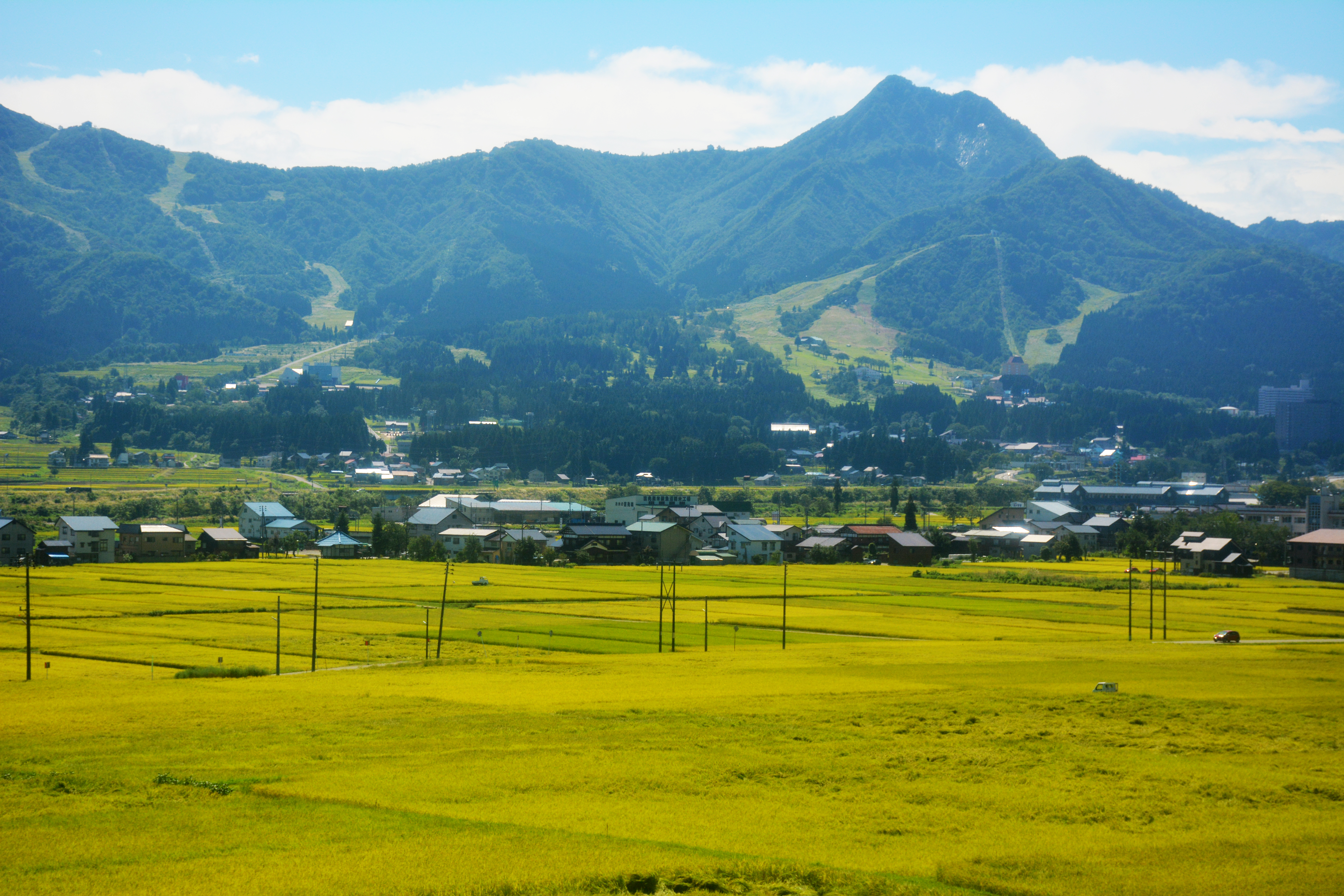 Mount Iiji seen from the North. Taken on Jōetsu line. This is a retouched picture, which means that it has been digitally altered from its original version. Modifications: Color adjustment. Modifications made by Batholith.